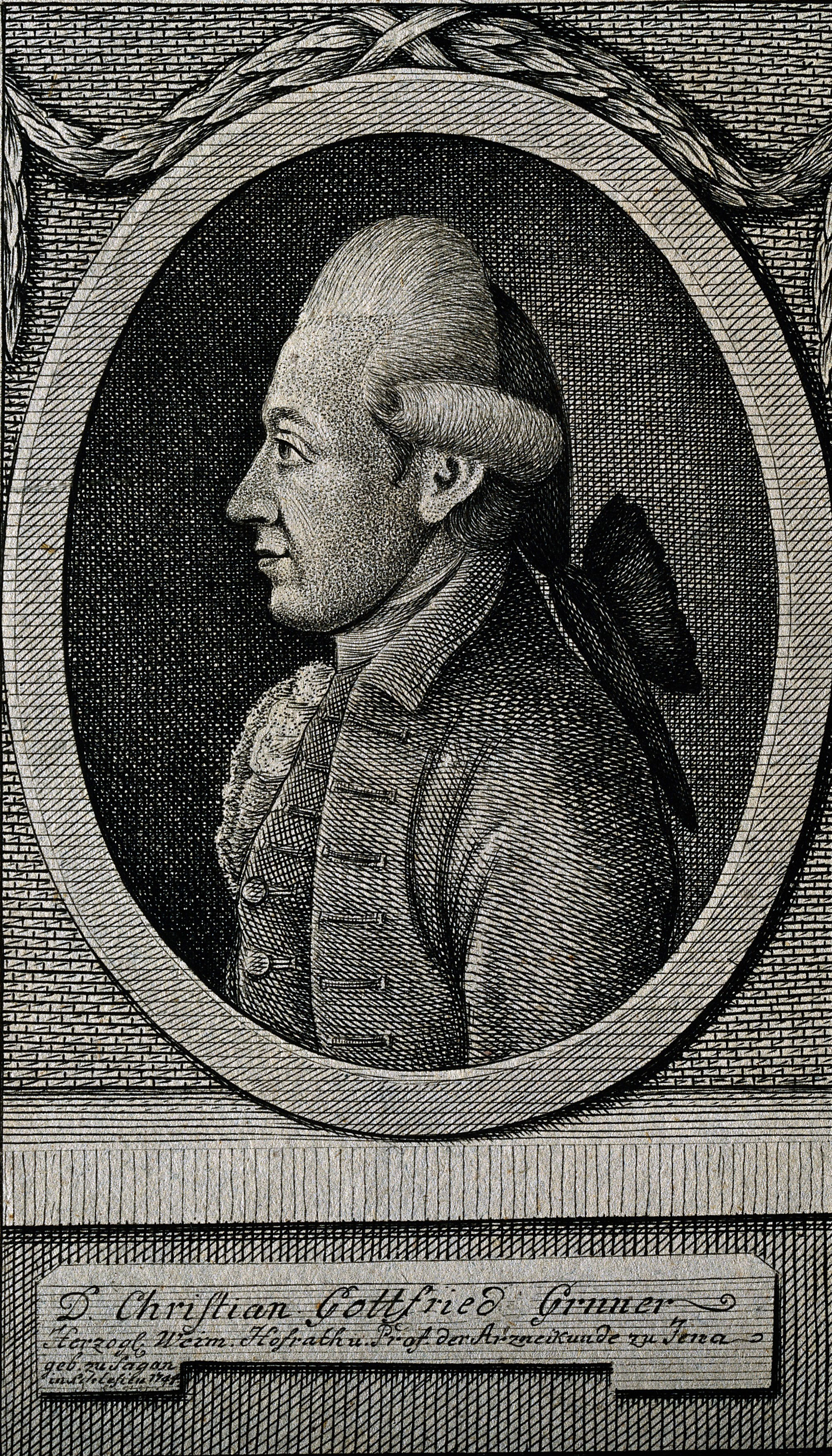 Christian Gottfried Gruner (1744-1815) German Physician and Historian